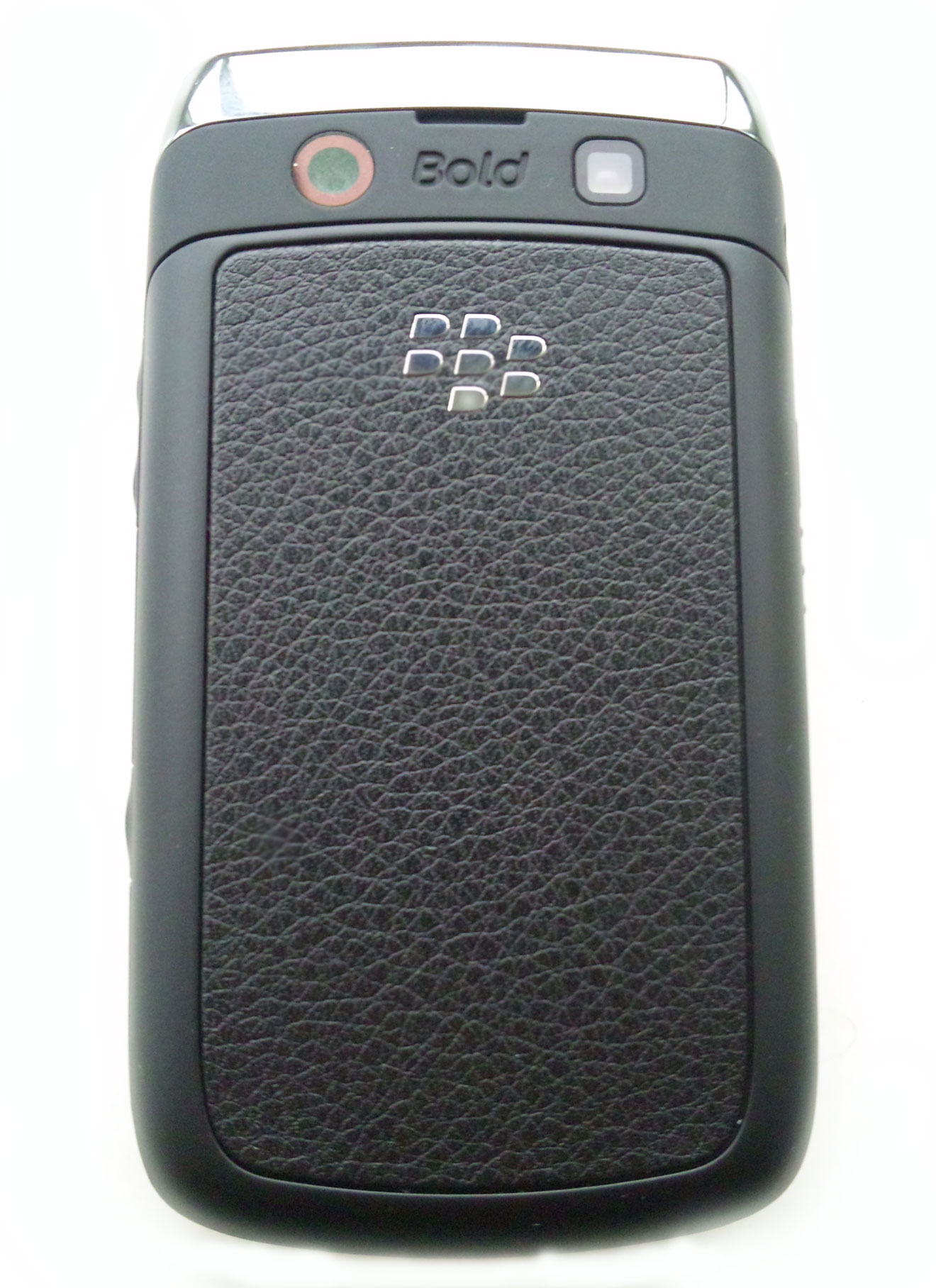 BalckBery Bold 9700 Back